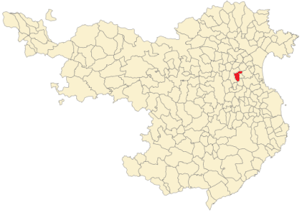 Palau de Santa Eulàlia